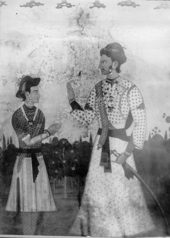 Parthivendra Malla, king of Kathmandu from 1680–1687